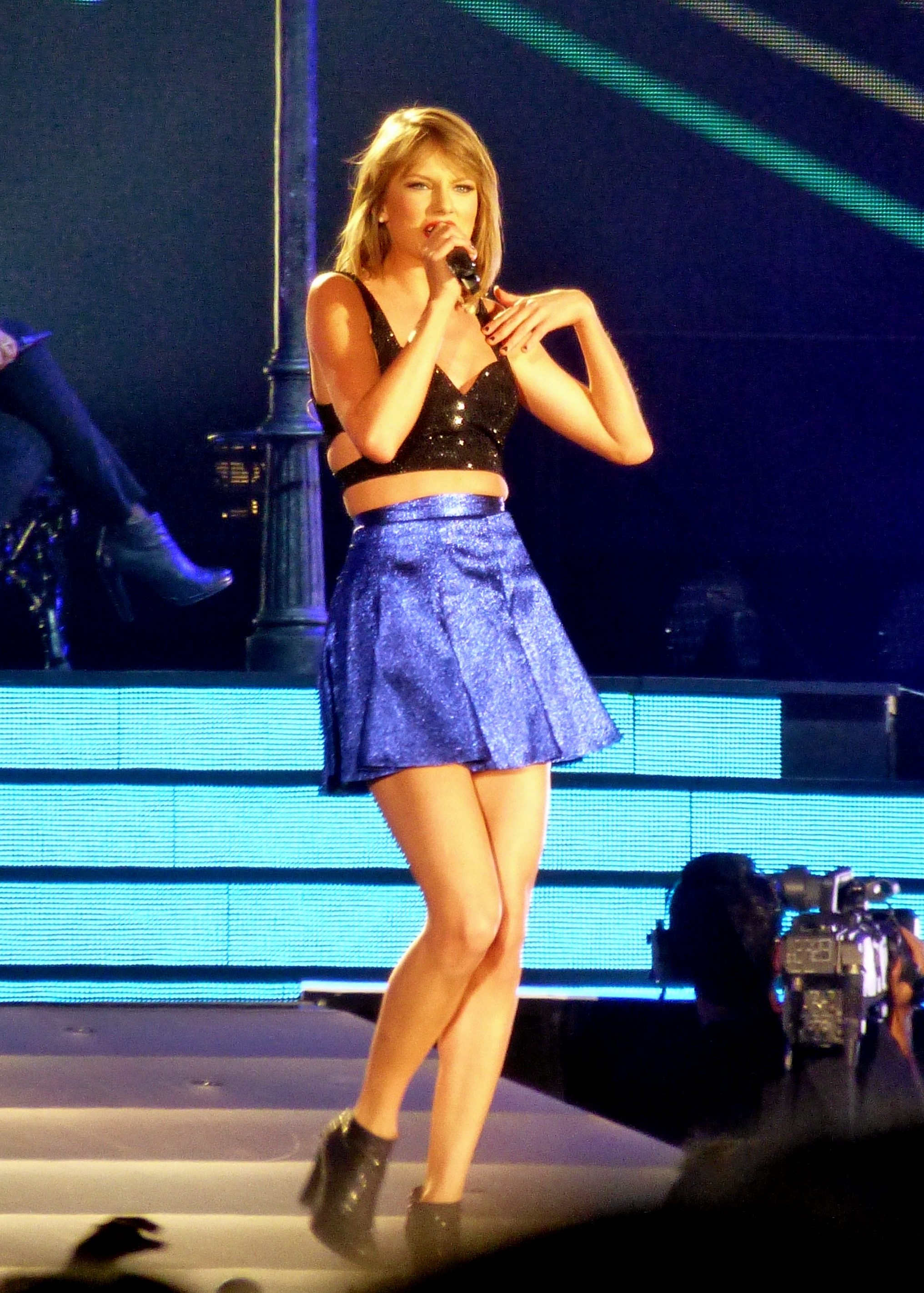 Taylor Swift 1989 Tour at Ford Field in Detroit, 5/30/15